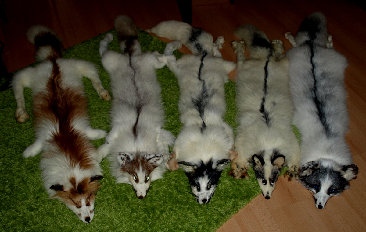 Different color versions of the arctic marble fox (ranched breed of Vulpes Vulpes)